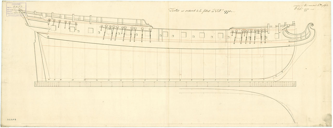 Tartar (1757) Scale 1:48. Plan showing the incomplete sheer lines with scroll figureheads and no water lines, also incomplete longitudinal half breadth for fitting Tartar (1757), a 28-gun, fifth Rate Frigate as taken off at Deptford Dockyard on 15th April 1763. Annotation: top right: "A Copy of this was sent to Deptford 21st Februsry 1770" TARTAR 1756